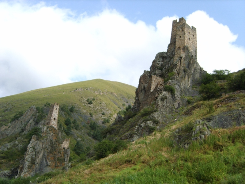 Republic of Ingushetia (Russia) - castle Vovnushki.